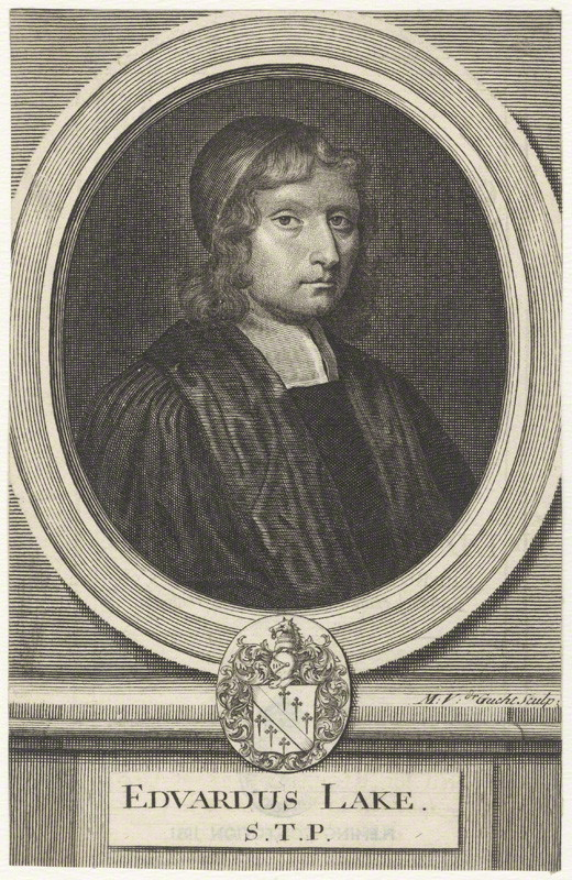 Portrait of Edward Lake (1641–1704), English churchman